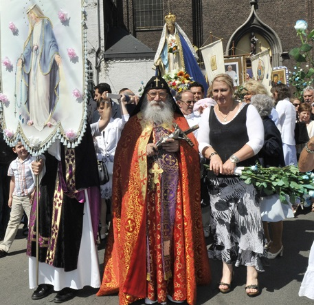 le père samuel